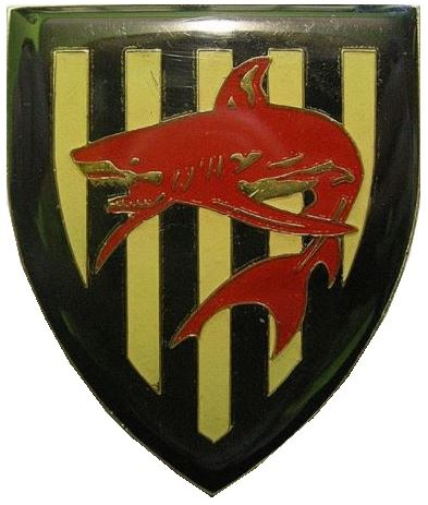 SADF era Commando Umgeni emblem